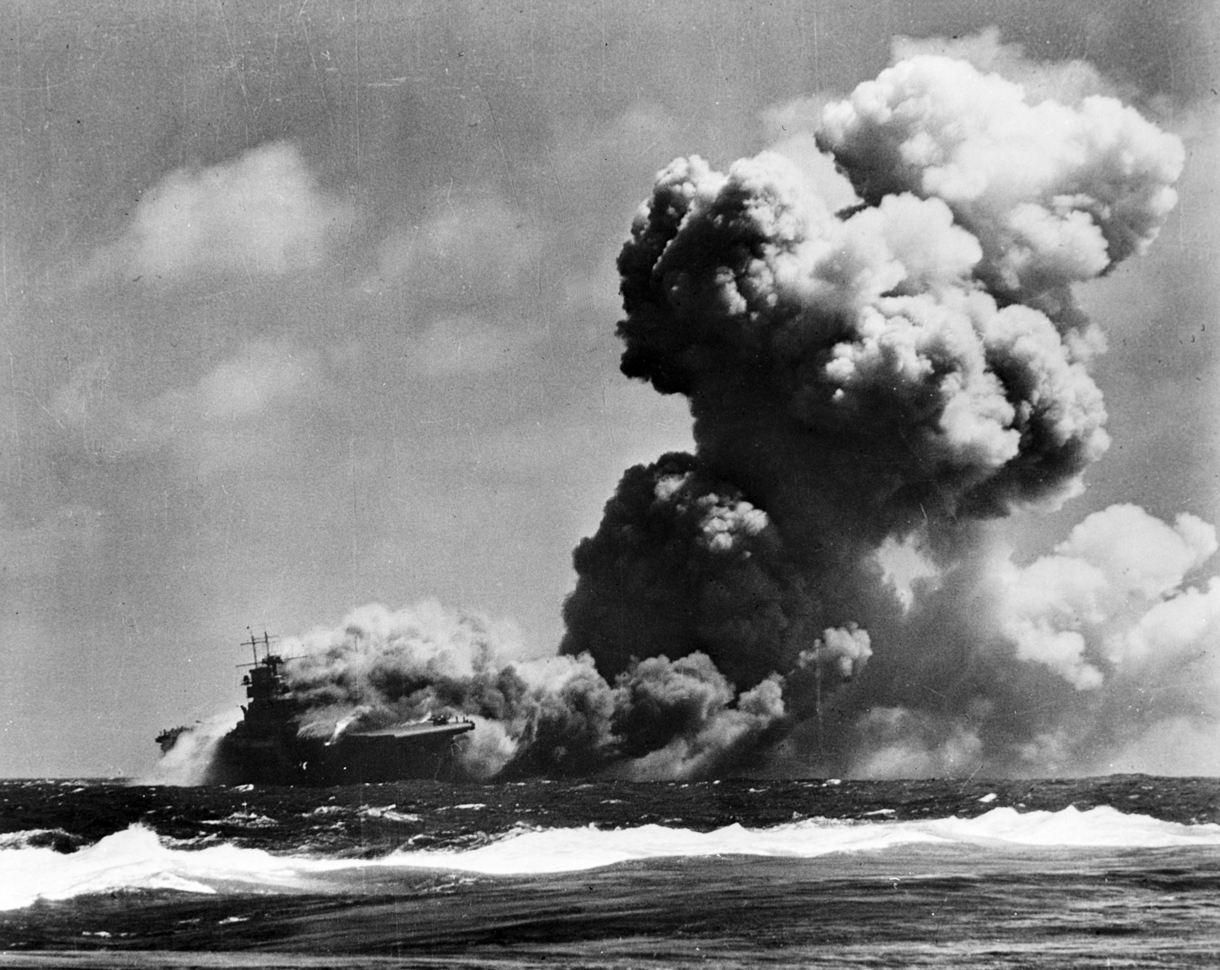 The U.S. aircraft carrier USS Wasp (CV-7) burning after receiving three torpedo hits from the Japanese submarine I-19 east of the Solomons, 15 September 1942.